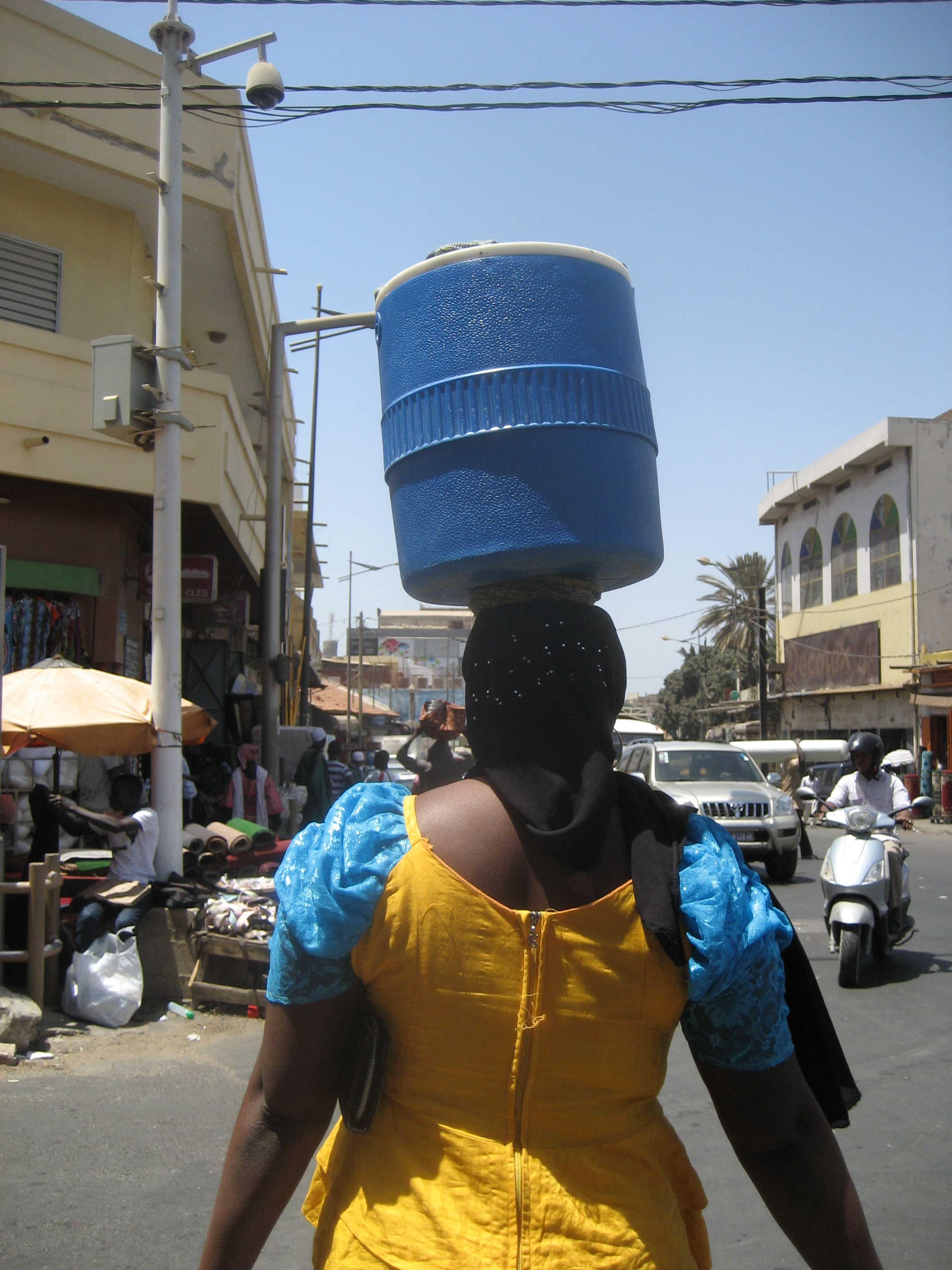 Woman carrying a box on her head. Avenue Blaise Diagne, Dakar (Senegal)